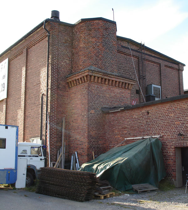 Sandvik sawmill. Remaining part of the old building.